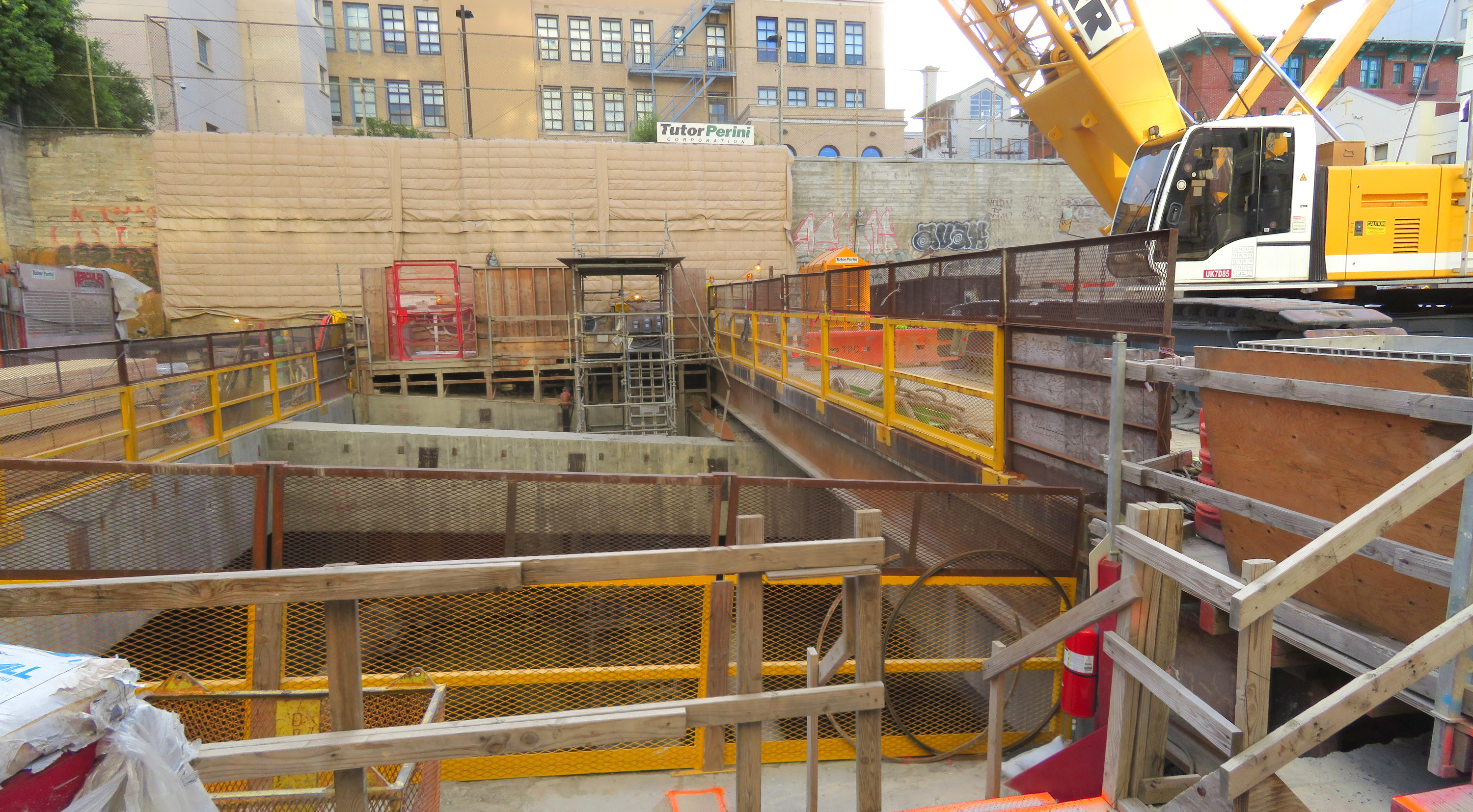 Construction of Chinatown station in April 2018